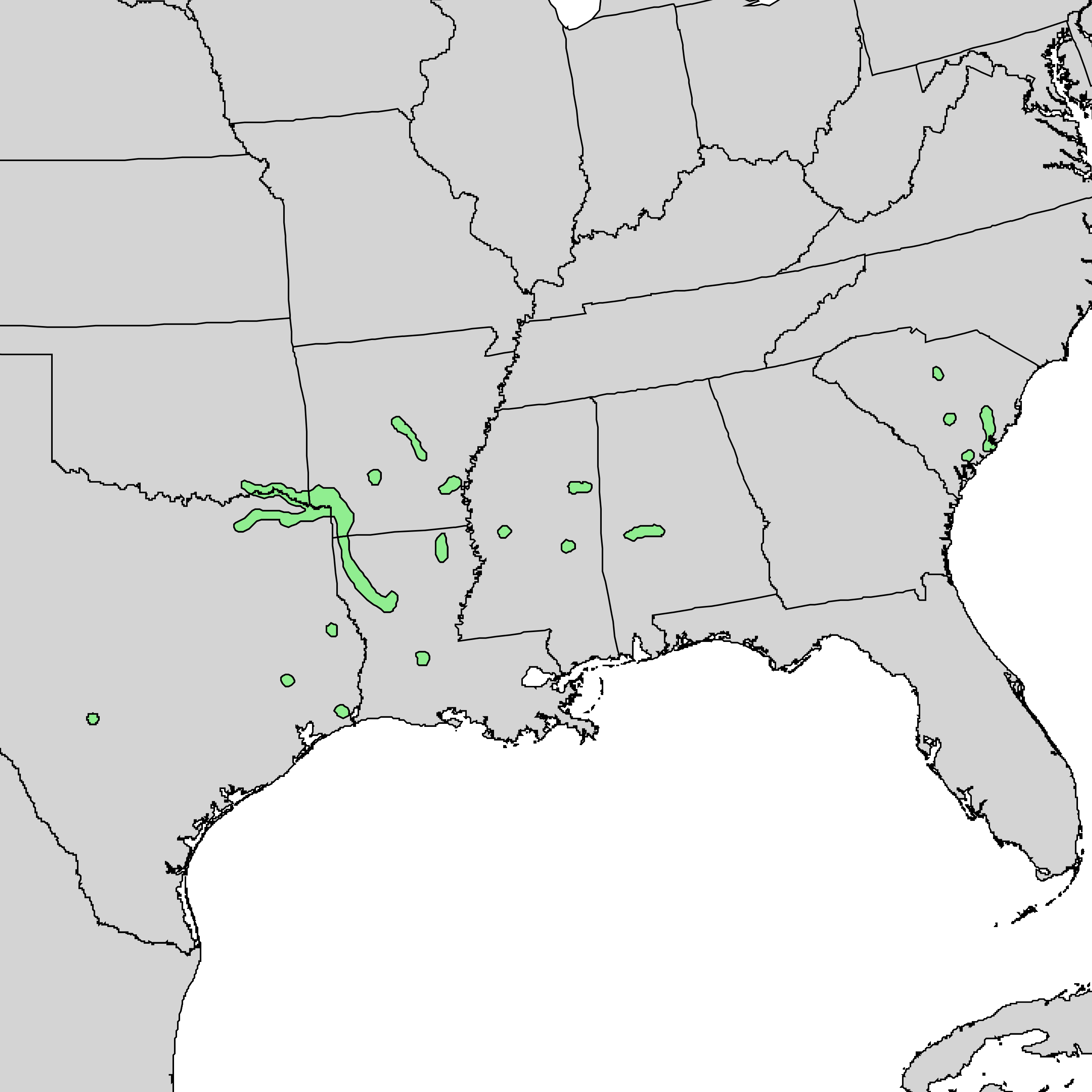 Natural distribution map for Carya myristicaeformis